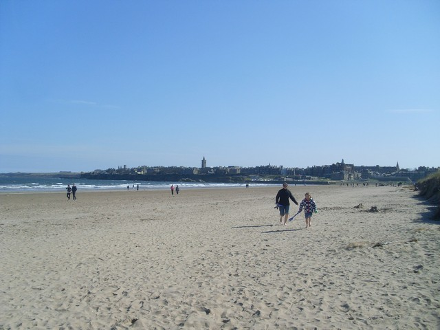 West Sands Beach, St Andrews The beach to the north of the town, by the Old Course.